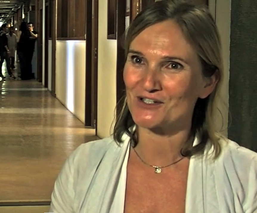 Prof Daniela Stock Challenging Ideas: Daniela Stock by IBMCINEB